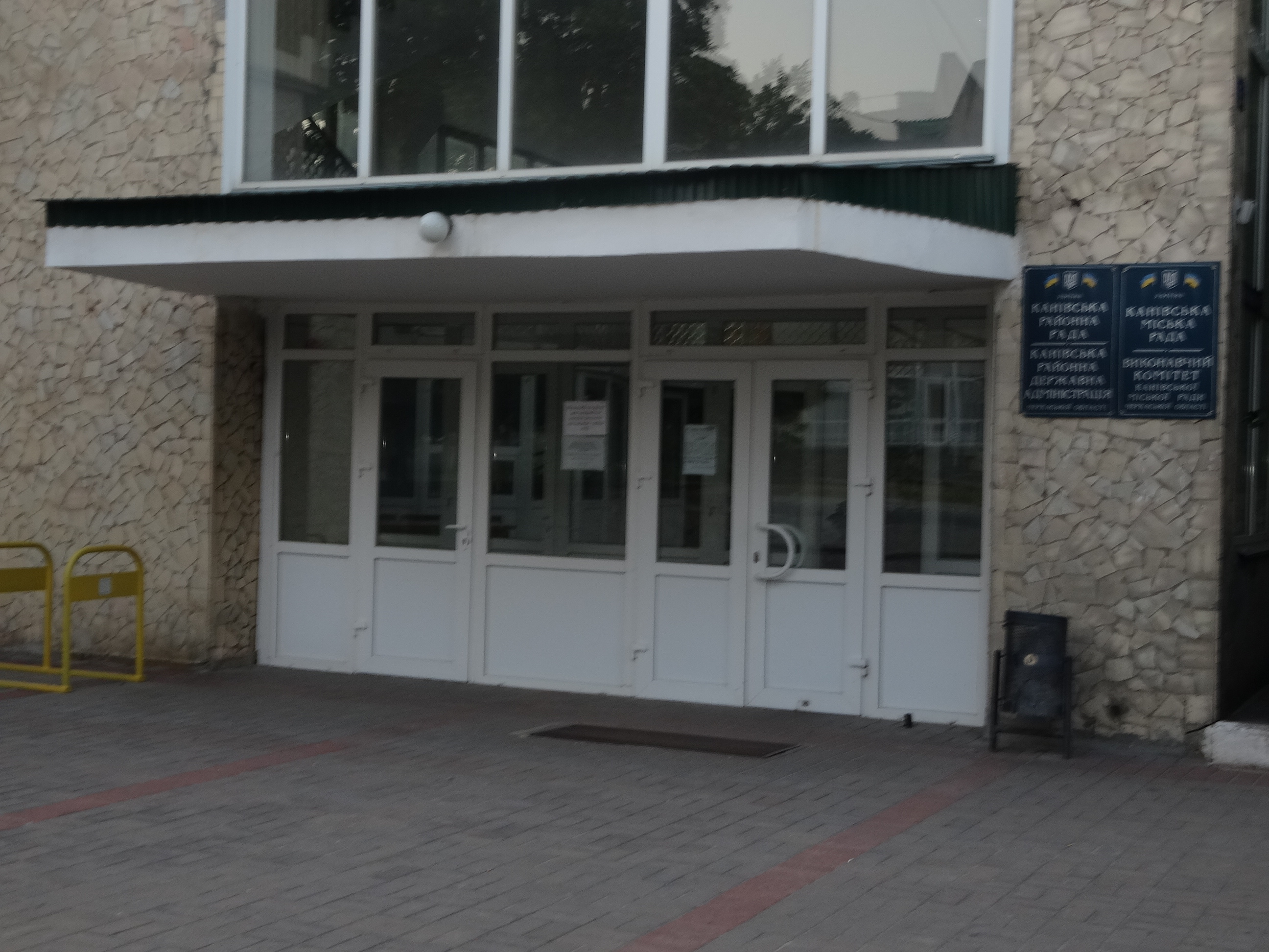 Вхід до будівлі Канівської міськради.